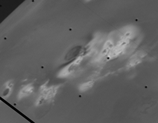 Crop from Voyager 1 Narrow Angle Camera raw image of Io showing the active volcano Surt. The original image was acquired on March 5, 1979. The original image ID is 1775J1-001.